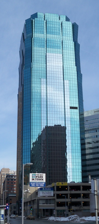 AT&T Tower in downtown Minneapolis, Minnesota, USA.